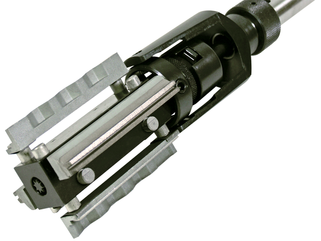 Superabrasives or diamond honing abrasives. This system in the photograph is a pinon driven hone head that expands and contracts the abrasives. It is typically used to finish engine cylinders for tolerance and surface properties.